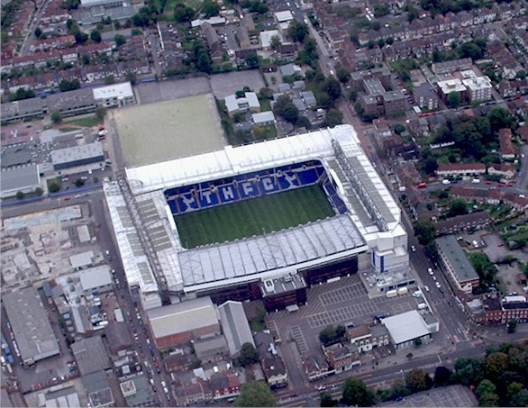 Aerial view Tottenham Hotspur Football Club Photograph taken from Helicopter encircling the ground.